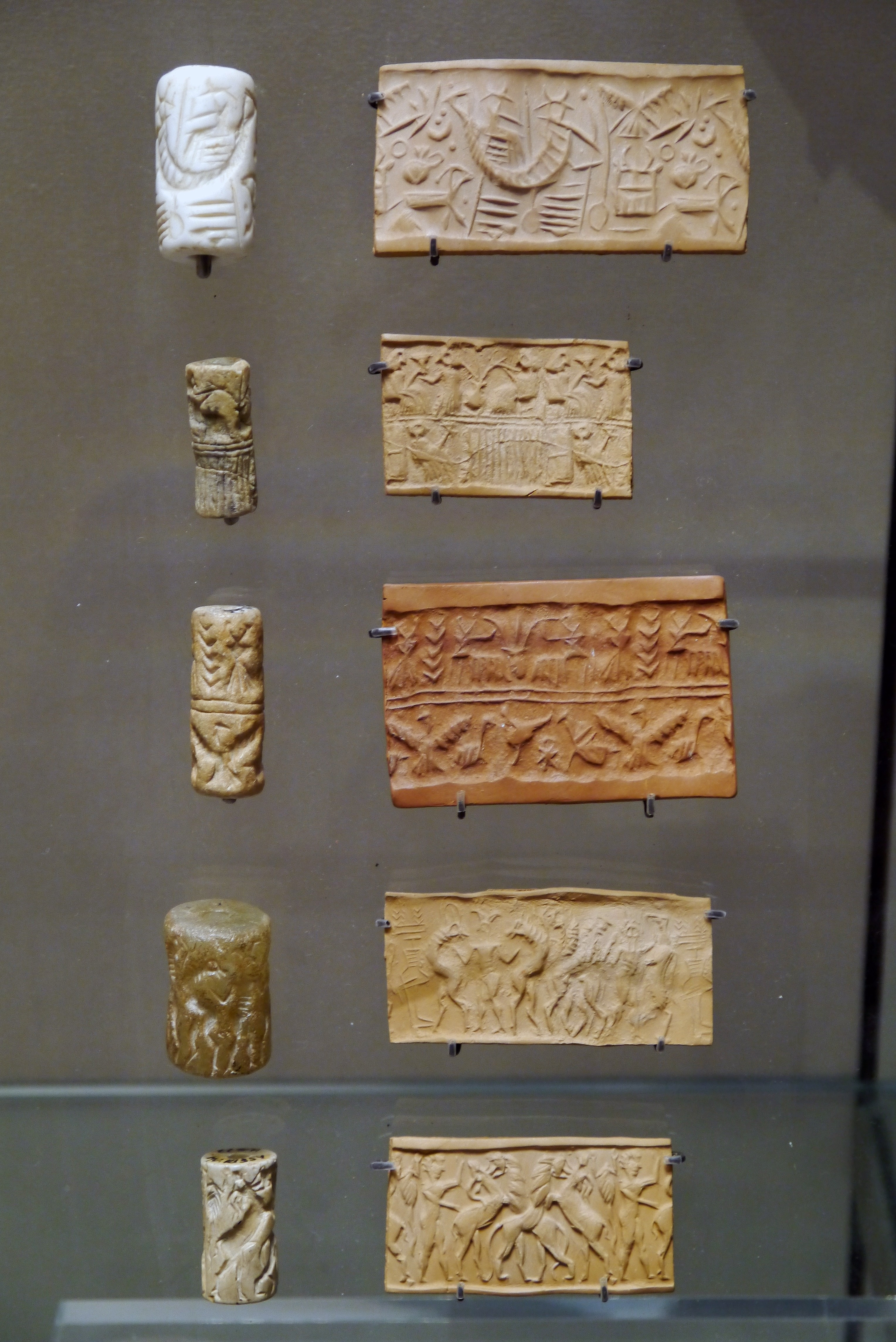 Cylinder seals.